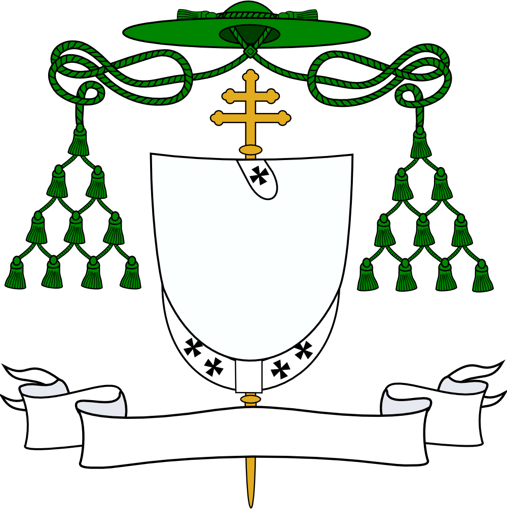 Arcbishop coat of arms (version with pallium)